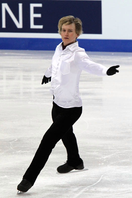 Kristoffer Berntsson at the 2011 European Figure Skating Championships.